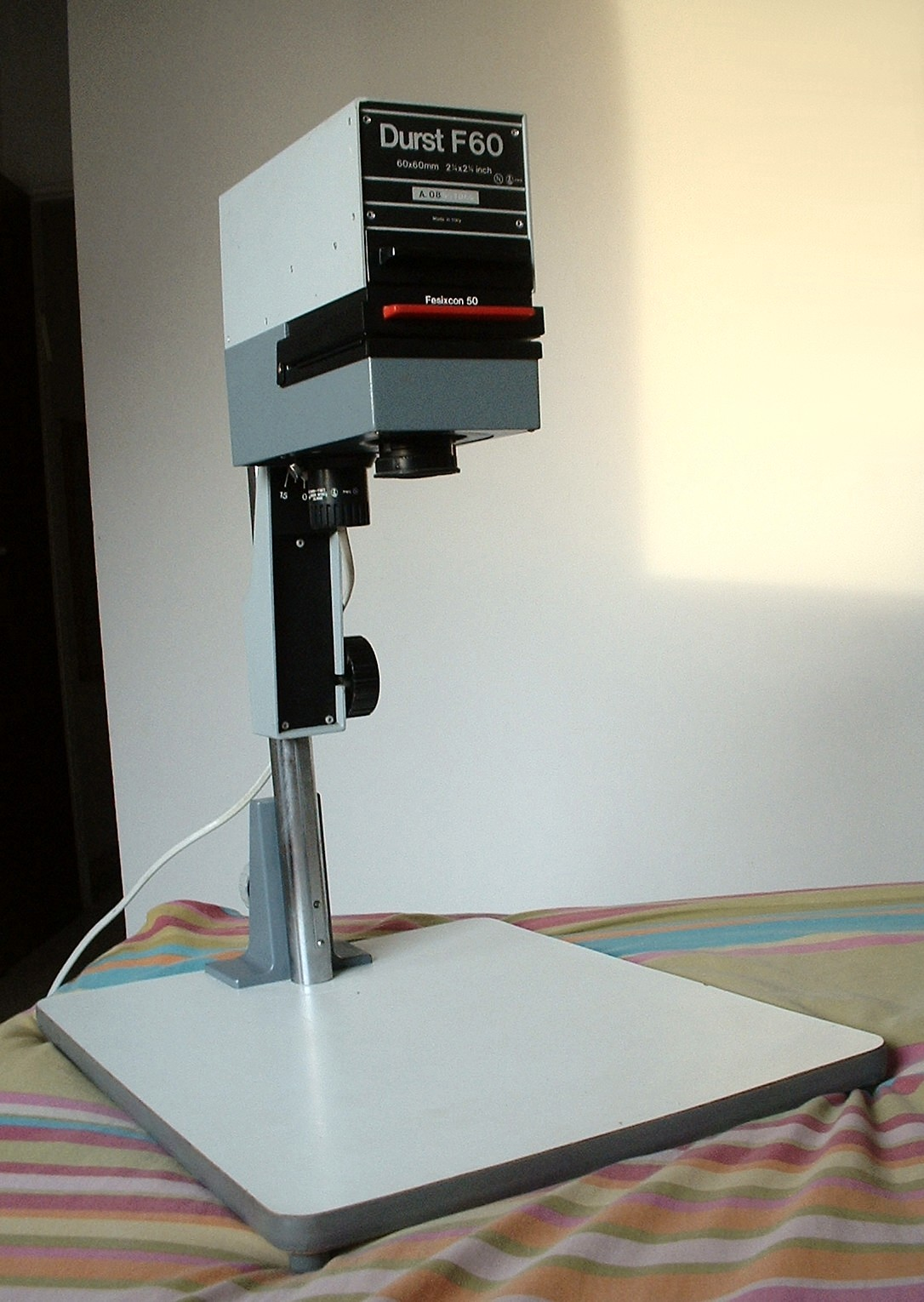 A Durst F60 photographic enlarger. Made in Italy.